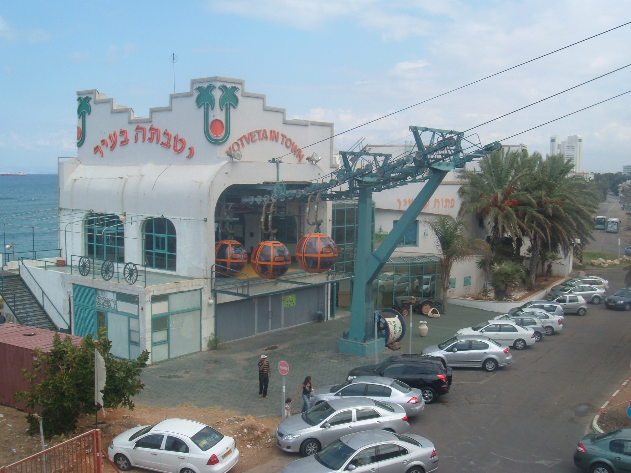 lower station of Stella Maris Cableway in Haifa, Israel תחנת הרכבל התחתונה בסטלה מאריס, חיפה